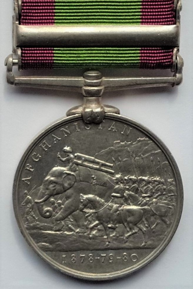 Afghanistan Medal 1880 Reverse with clasp